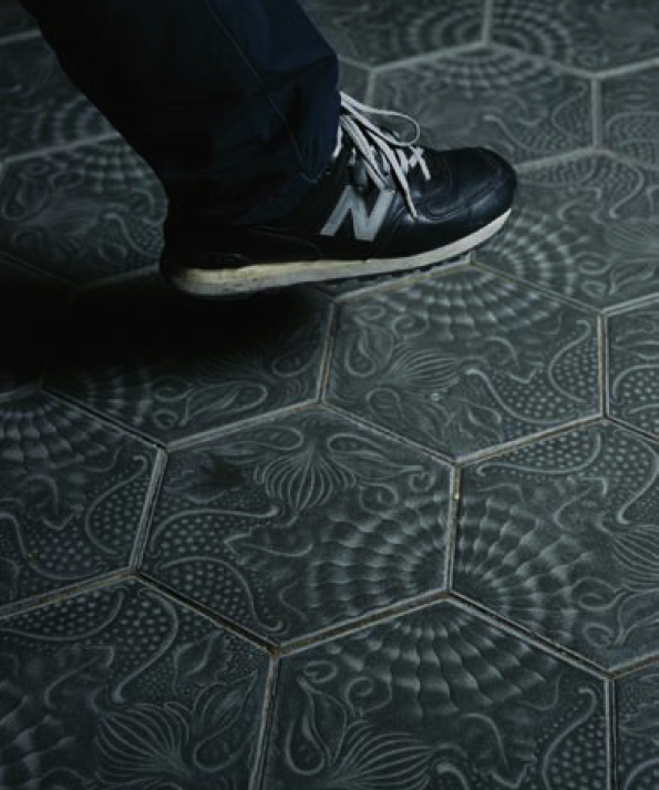 New Balance Sneakers